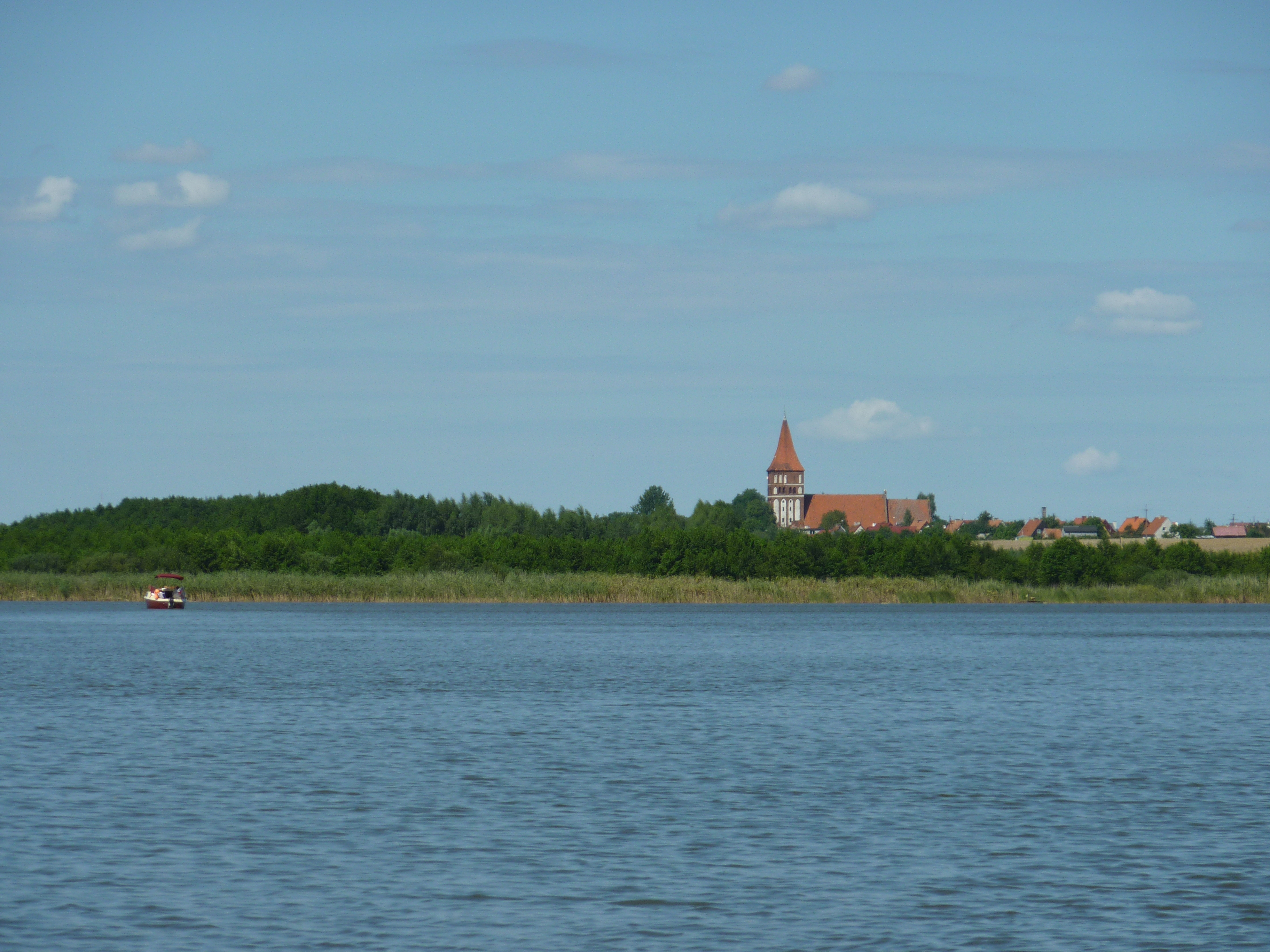 Zalewo in Poland, seen from the Lake Ewingi